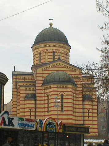 St/ George Cathedral in Kruševac